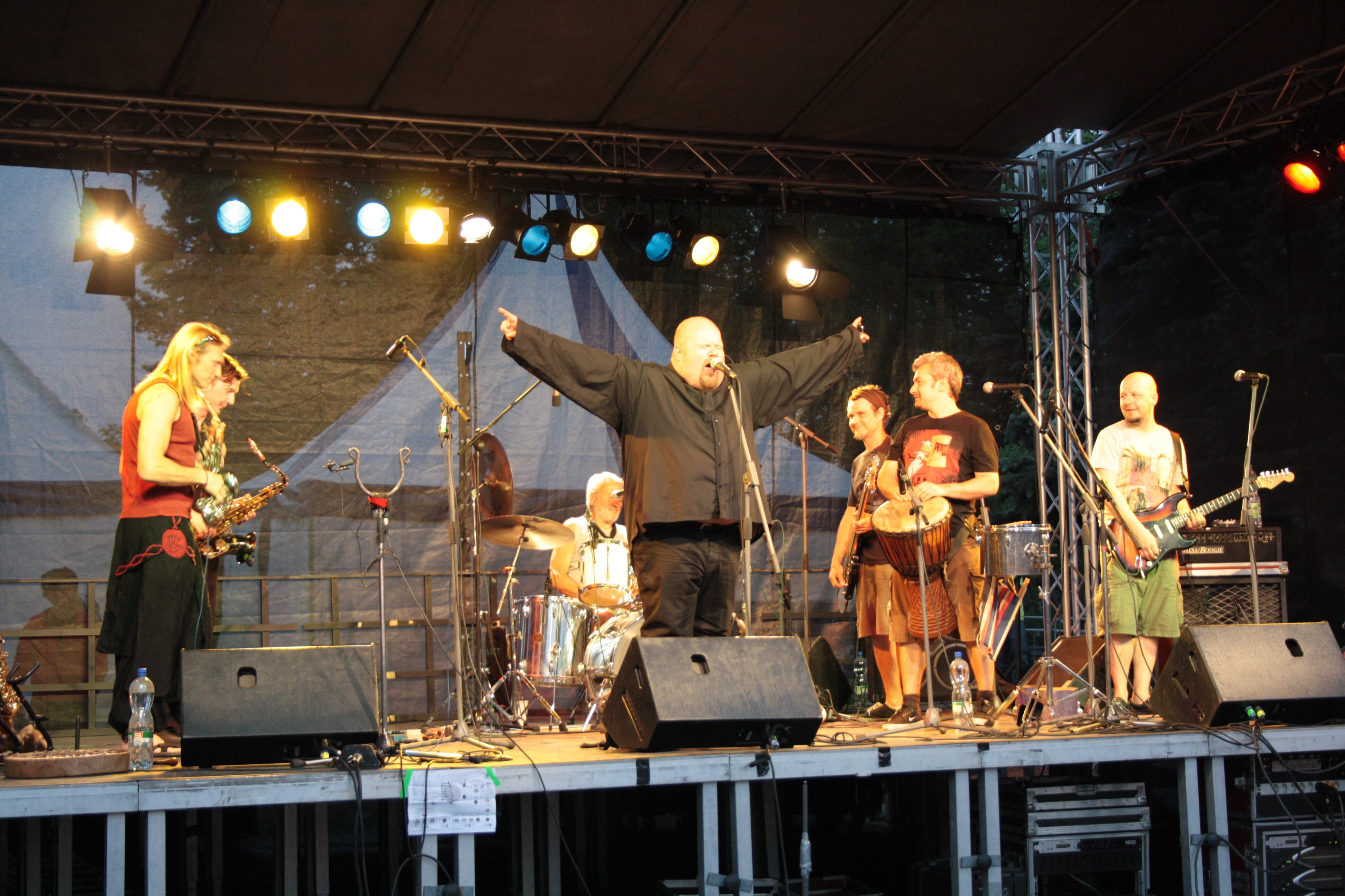 Čankišou concert, Brno, Czech Republic This photograph was taken with DSLR from WMCZ's Camera grant - OpenStreetMap(Info)